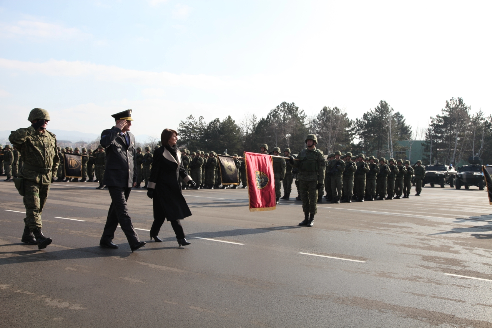 President Jahjaga - KSF